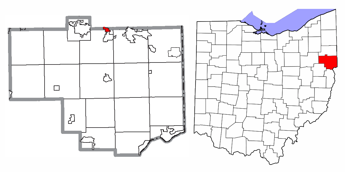 Map highlighting Village of Washingtonville, Columbiana County, Ohio.